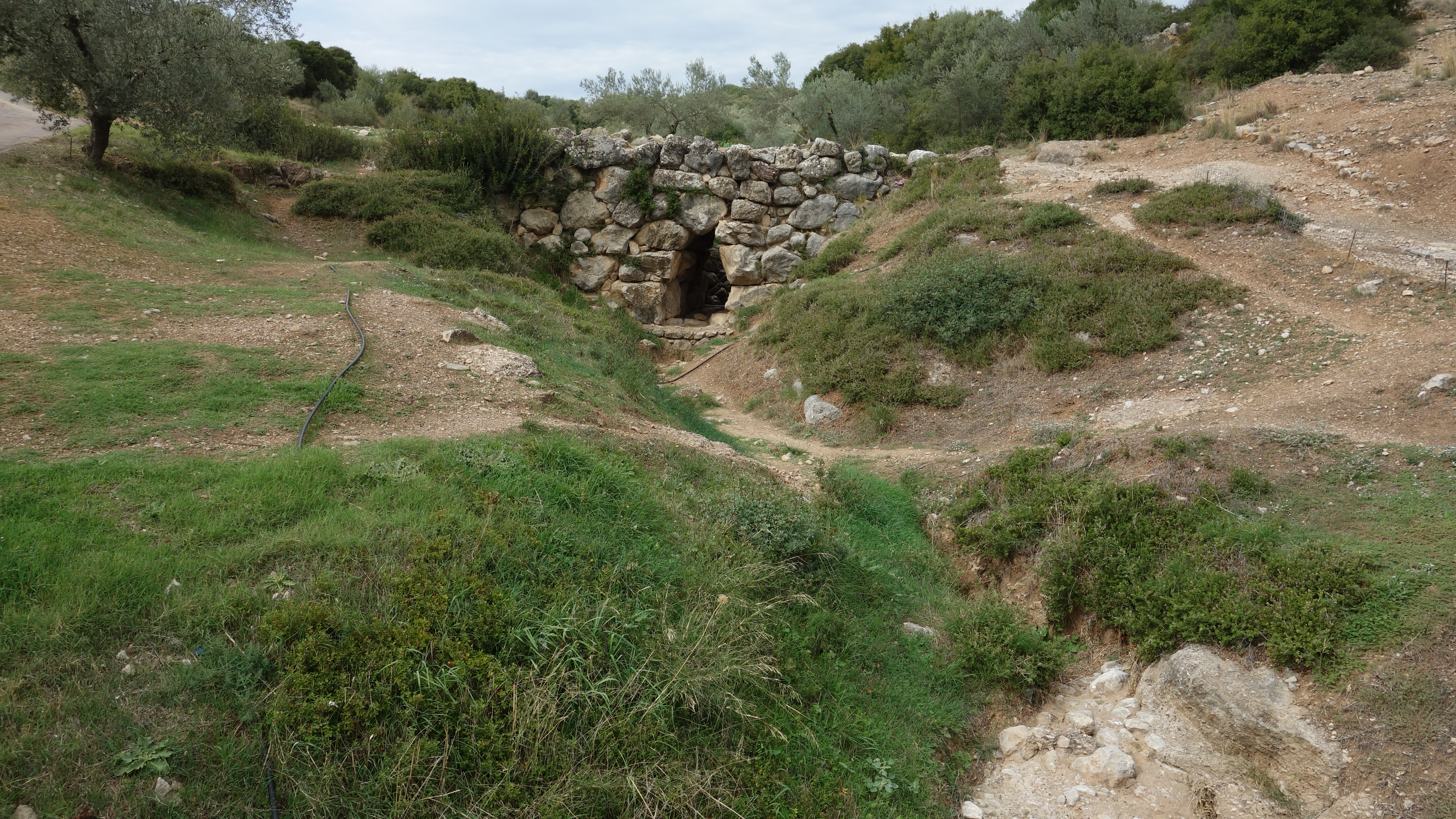 Surviving example of Mycenaean bridge construction in Argolis, Peloponnesos